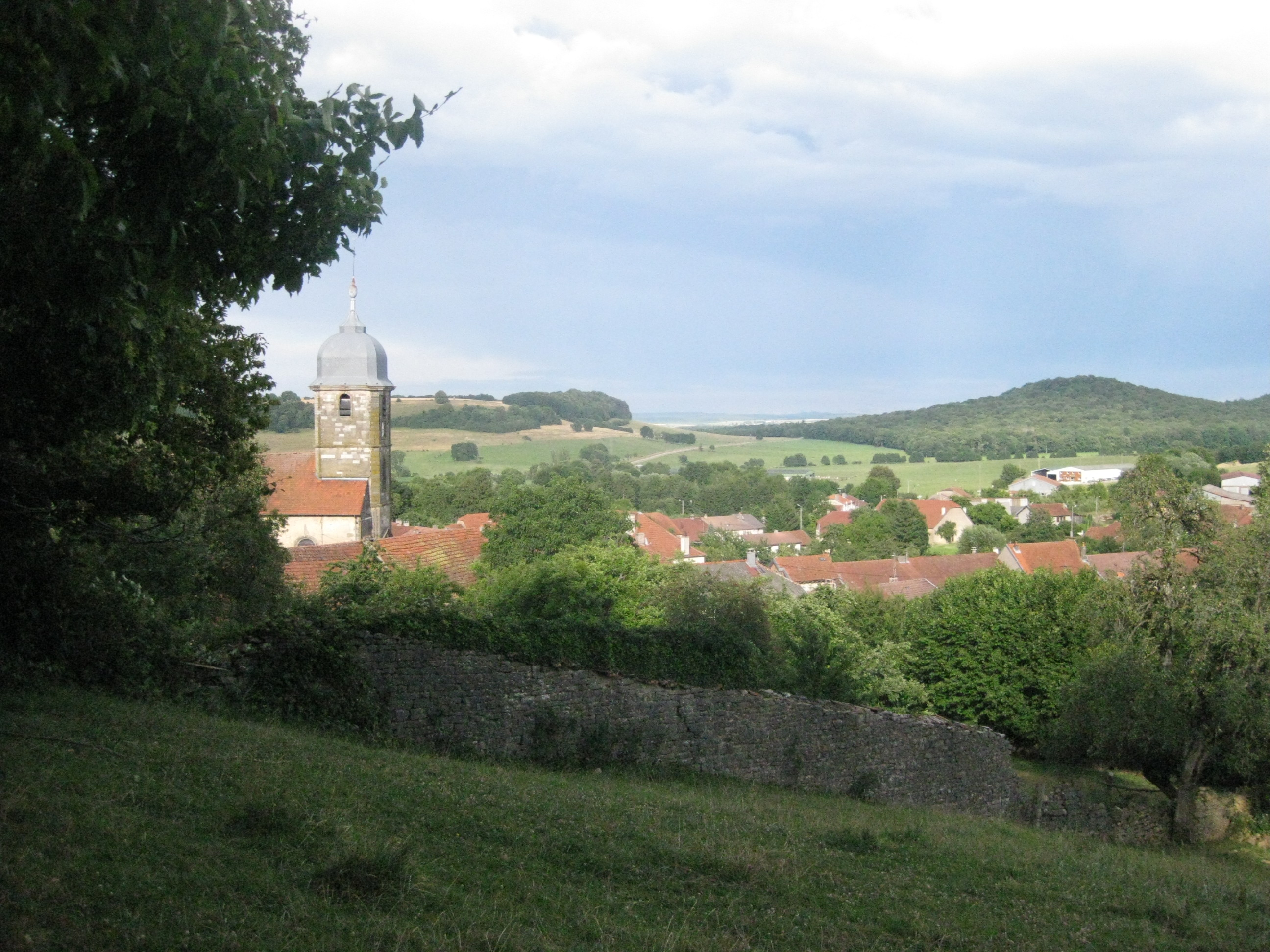 A view of Graffingny looking north.